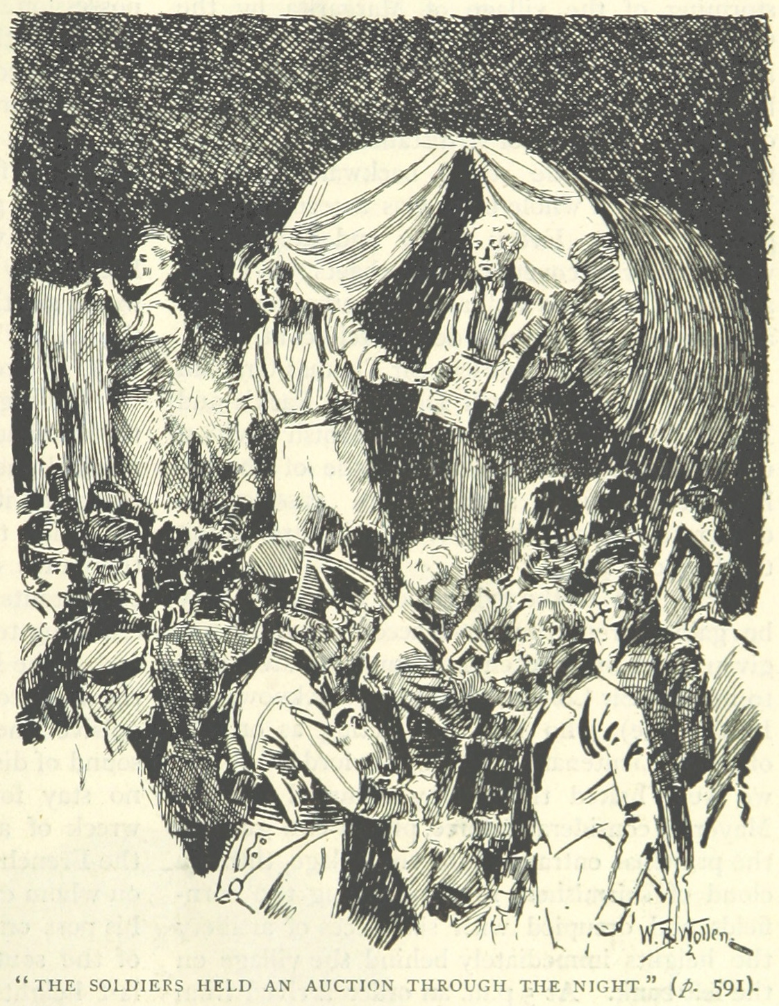 English troops auction off loot captured at the 1813 Battle of Vitoria.